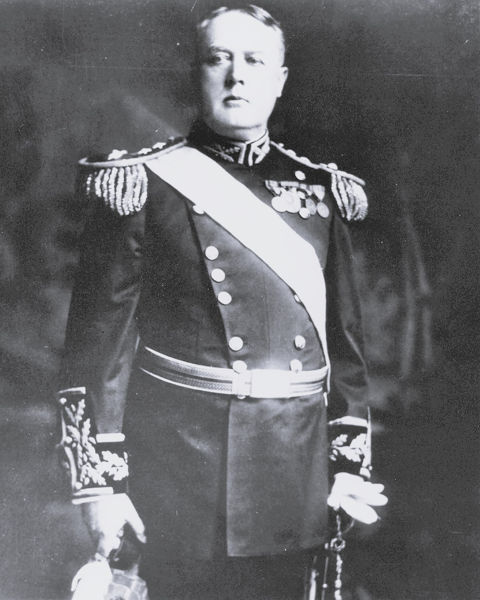 General William P. Biddle, USMC, Commandant of the Marine Corps